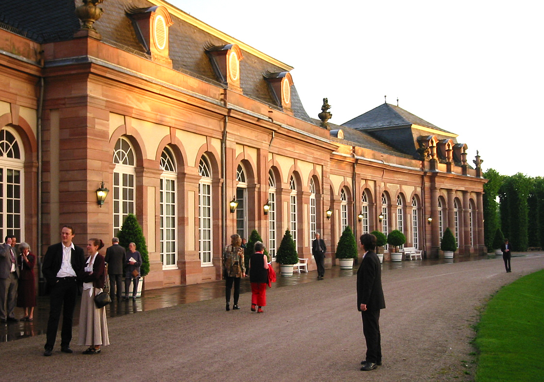 Schwetzingen, Germany, Zirkelbau, during the intermission of a concert by the Schwetzinger Festspiele classical music festival